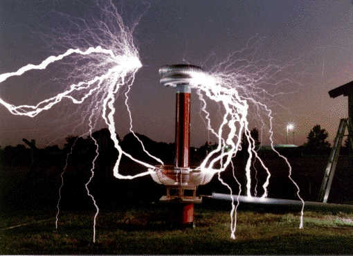 Homemade Tesla coil in operation producing 3.5 meter (10 foot) streamer arcs. A Tesla coil is an electronic resonant transformer circuit invented by Nikola Tesla in 1891 which produces high voltage, high frequency alternating current electricity at low current levels. The potential on the coil's donut-shaped high voltage terminal (center) was probably near one million volts to produce arcs of this length.